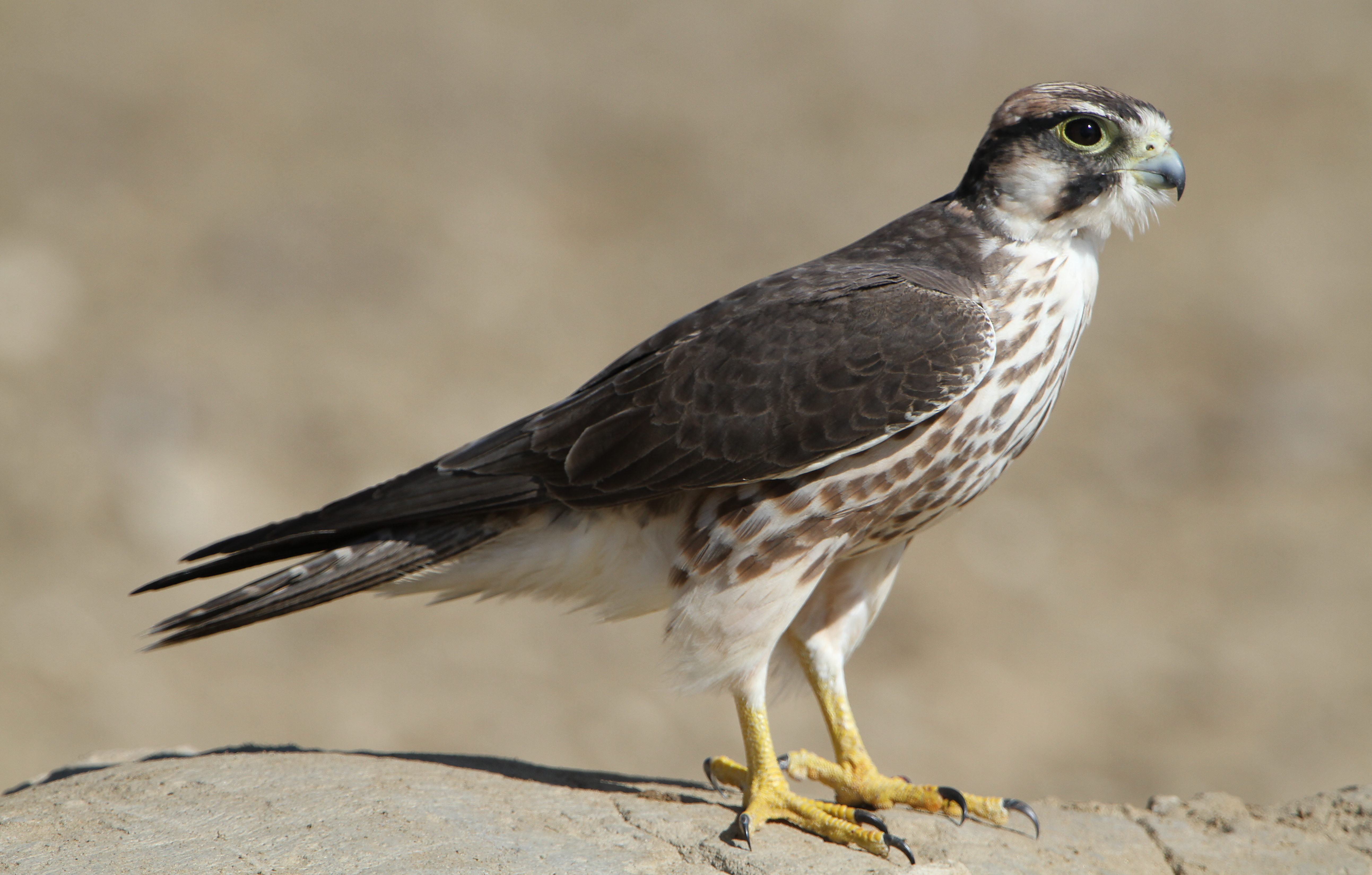 Lanner falcon, Falco biarmicus, at Kgalagadi Transfrontier Park, Northern Cape, South Africa